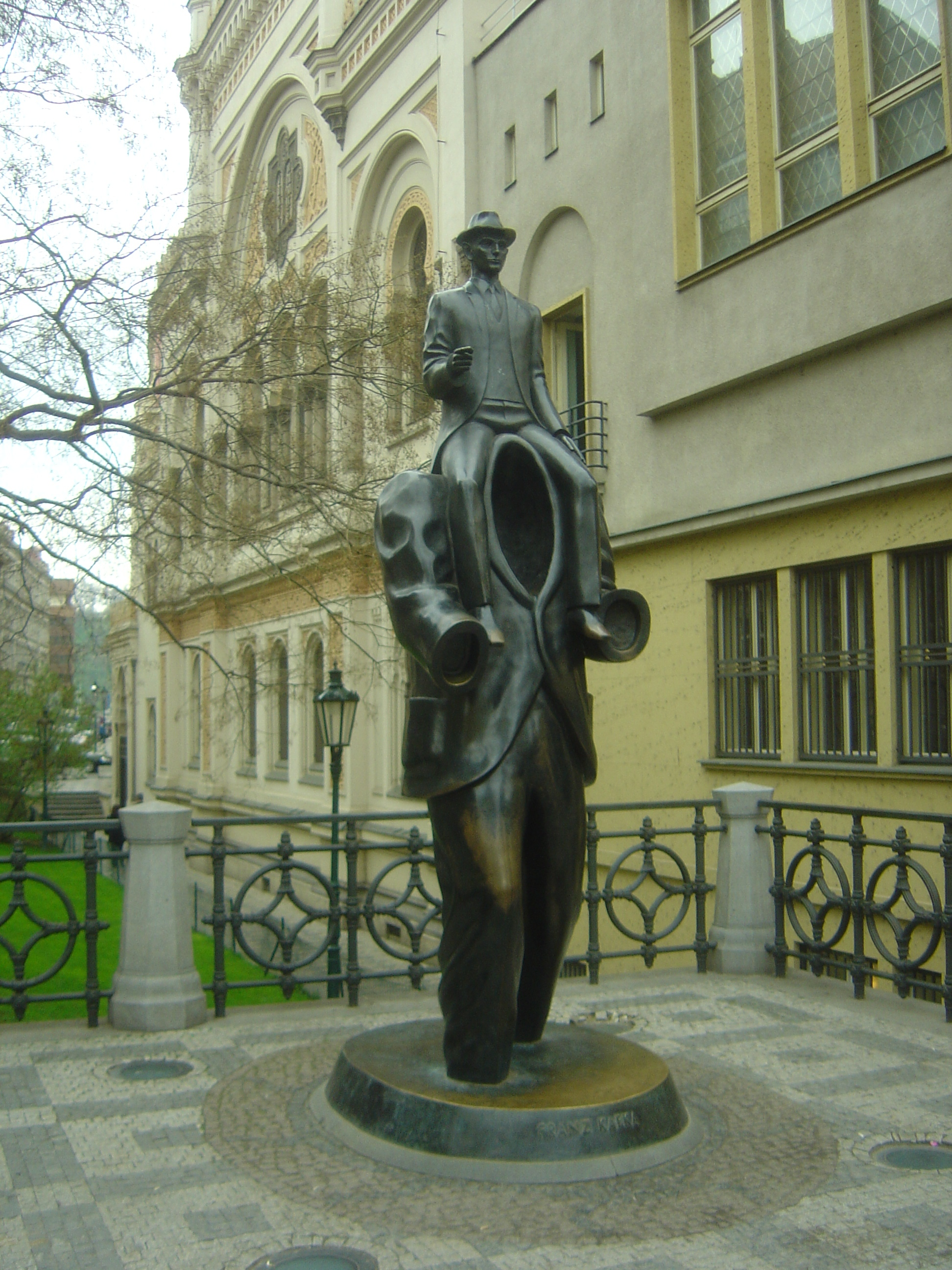 Franz Kafka statue by Jaroslav Róna in Prague